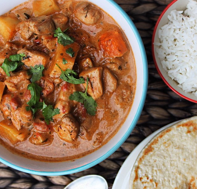 Spicy and hot chicken Tikka masala garnished with extra spices, rotis and rice.